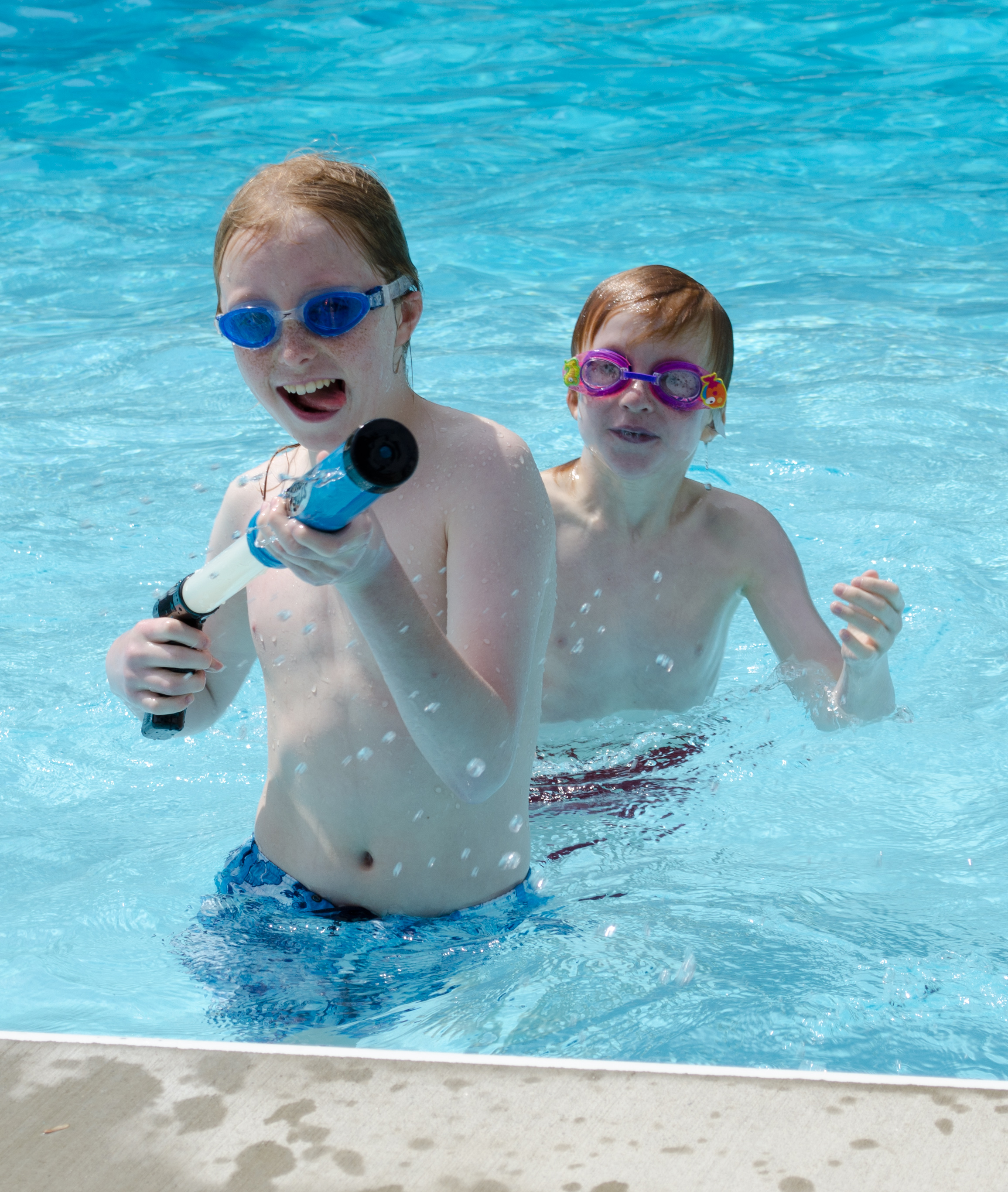 Boy with water gun in a swimming pool.